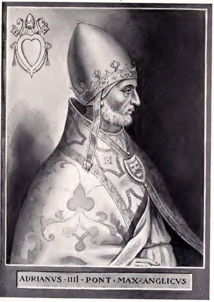 This illustration is from The Lives and Times of the Popes by Chevalier Artaud de Montor, New York: The Catholic Publication Society of America, 1911. It was originally published in 1842.